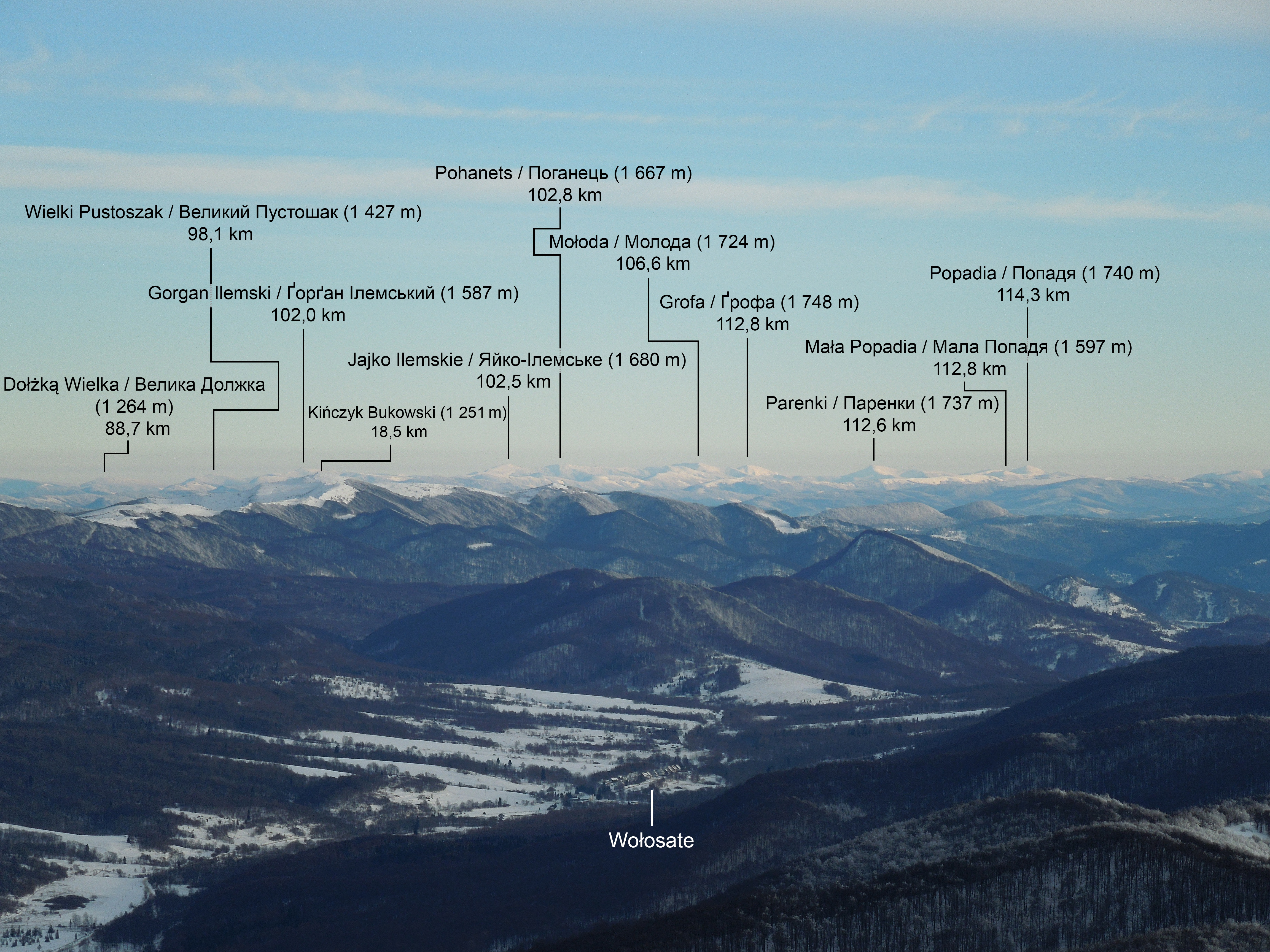 View of the Ukrainian peaks from Wielka Rawka This is a photography of Natura 2000 protected area with ID PLC180001